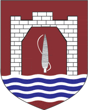 Coat of arms of Sindi, Estonia.